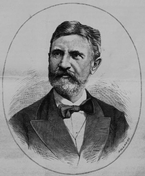 Portrait of József Lévay